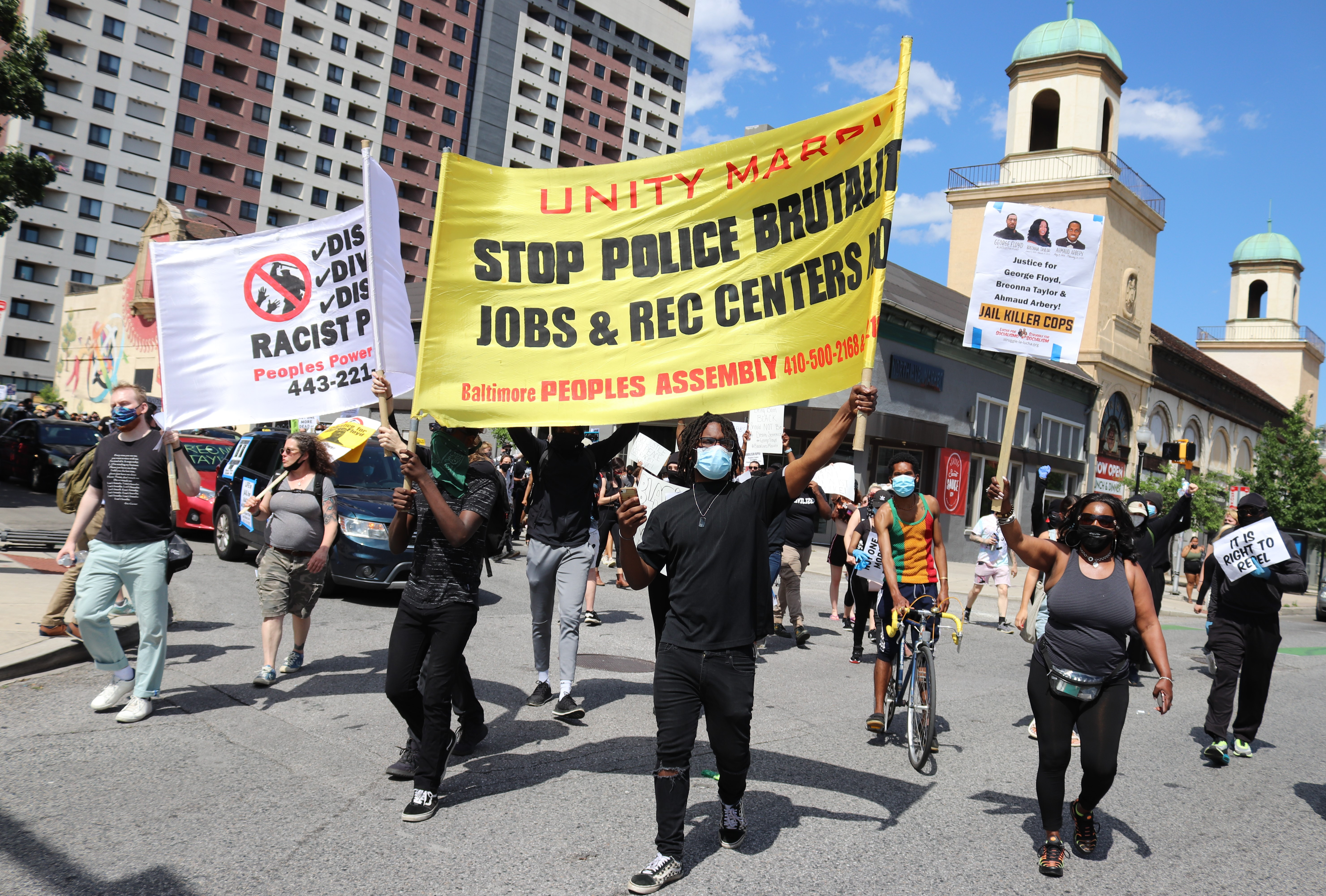 National Day of Protests Against Racism & Political Repression Caravan / March onto West North Avenue from Maryland Avenue in Baltimore, Maryland on Saturday afternoon, 30 May 2020 by Elvert Barnes Photography Follow People's Power Assembly Baltimore event page at Elvert Barnes Saturday, 30 May 2020 NDOP docu-project at Elvert Barnes Corona Virus COVID-19 Pandemic Project at Elvert Barnes BMORE 2020 docu-project at